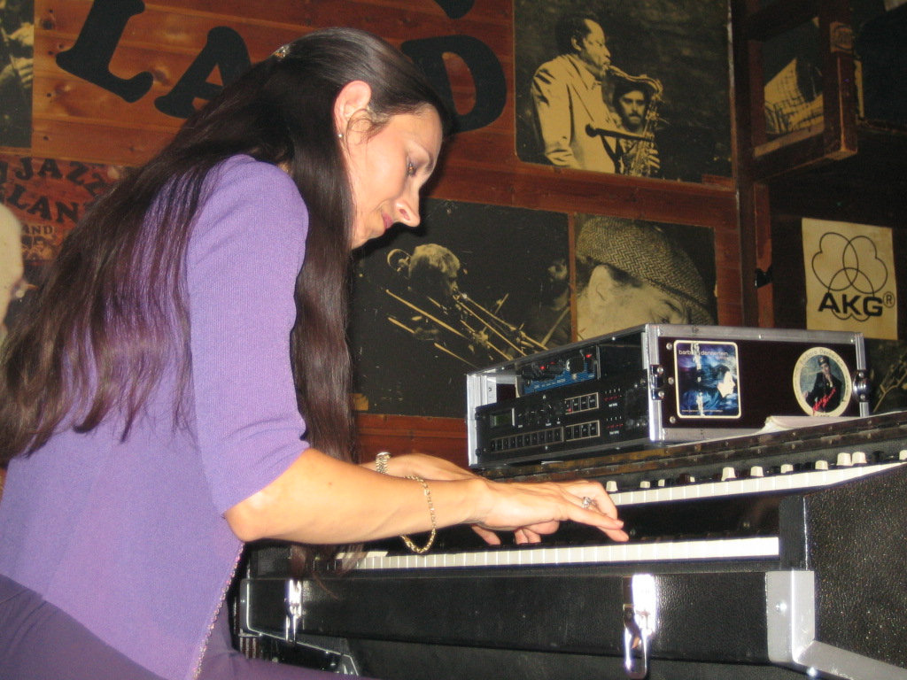 Barbara Dennerlein at Jazzland Vienna